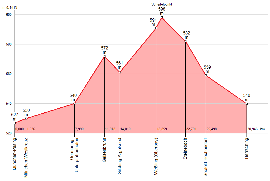 Altitude profile of the Munich-Pasing–Herrsching railway.